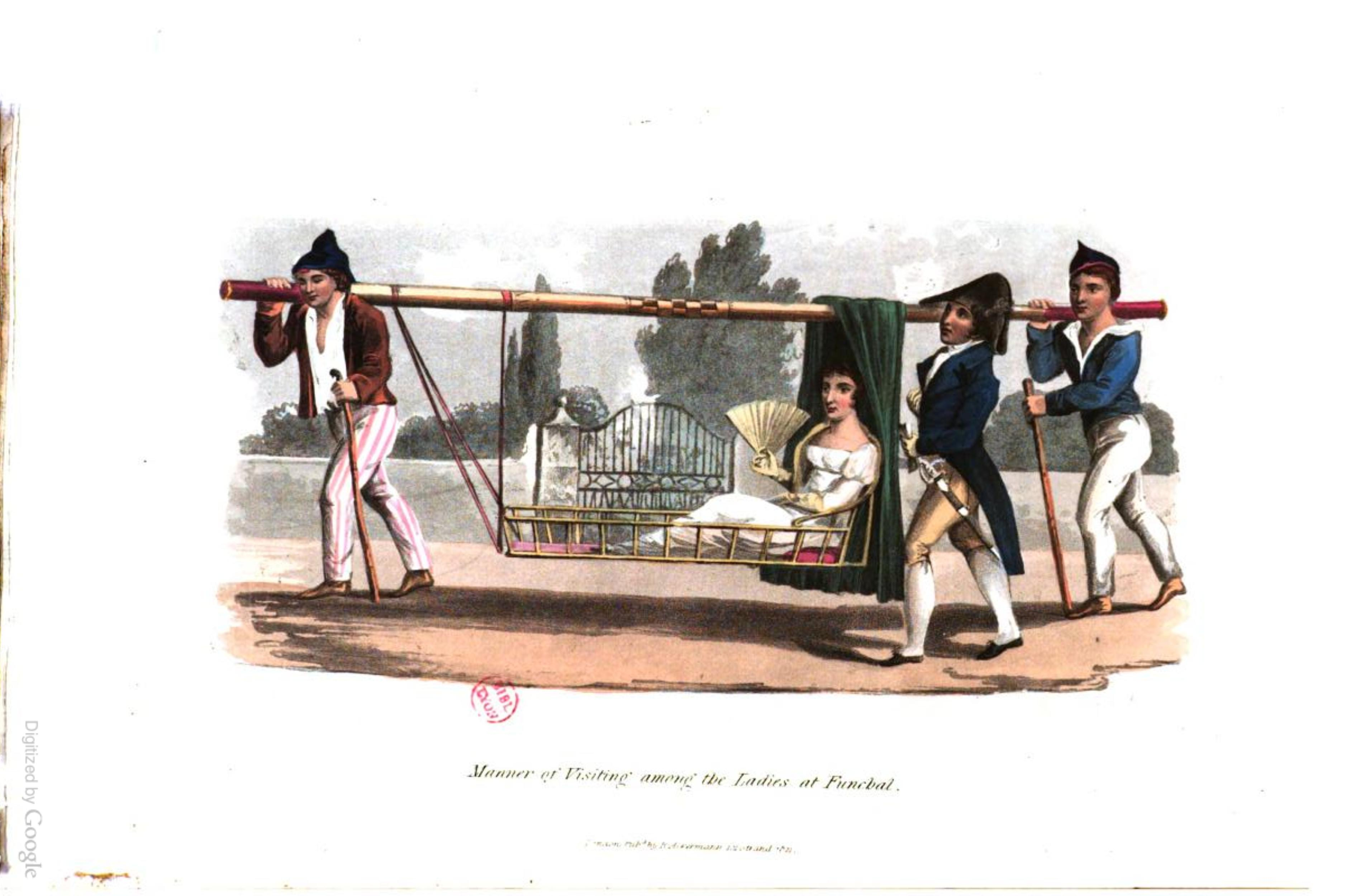 A History of Madeira, Plate 107